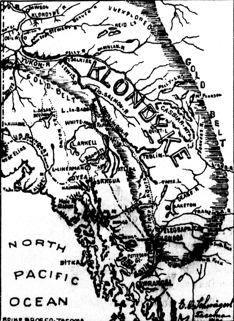 Map showing the route by way of the Stikine River to the Klondike Gold Fields. This was published in a pamphlet boosting the Stikine River route as the best way to reach the Alaska Gold Rush of 1898. The "Gold Belt" is shown to be quite near the terminus of the river route, whereas in fact the overland path to the gold fields was much longer and extremely difficult, which caused the route to be a failure.